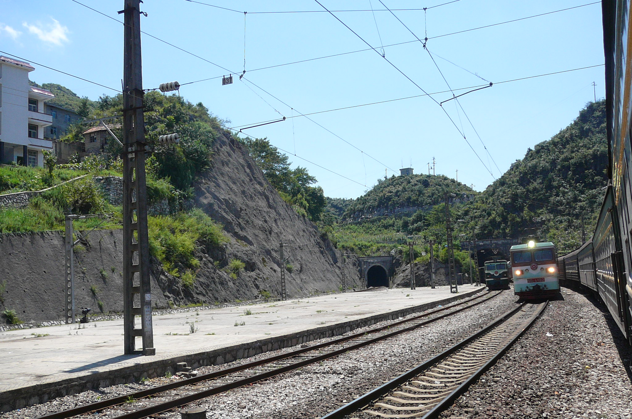 Erdaoyan station